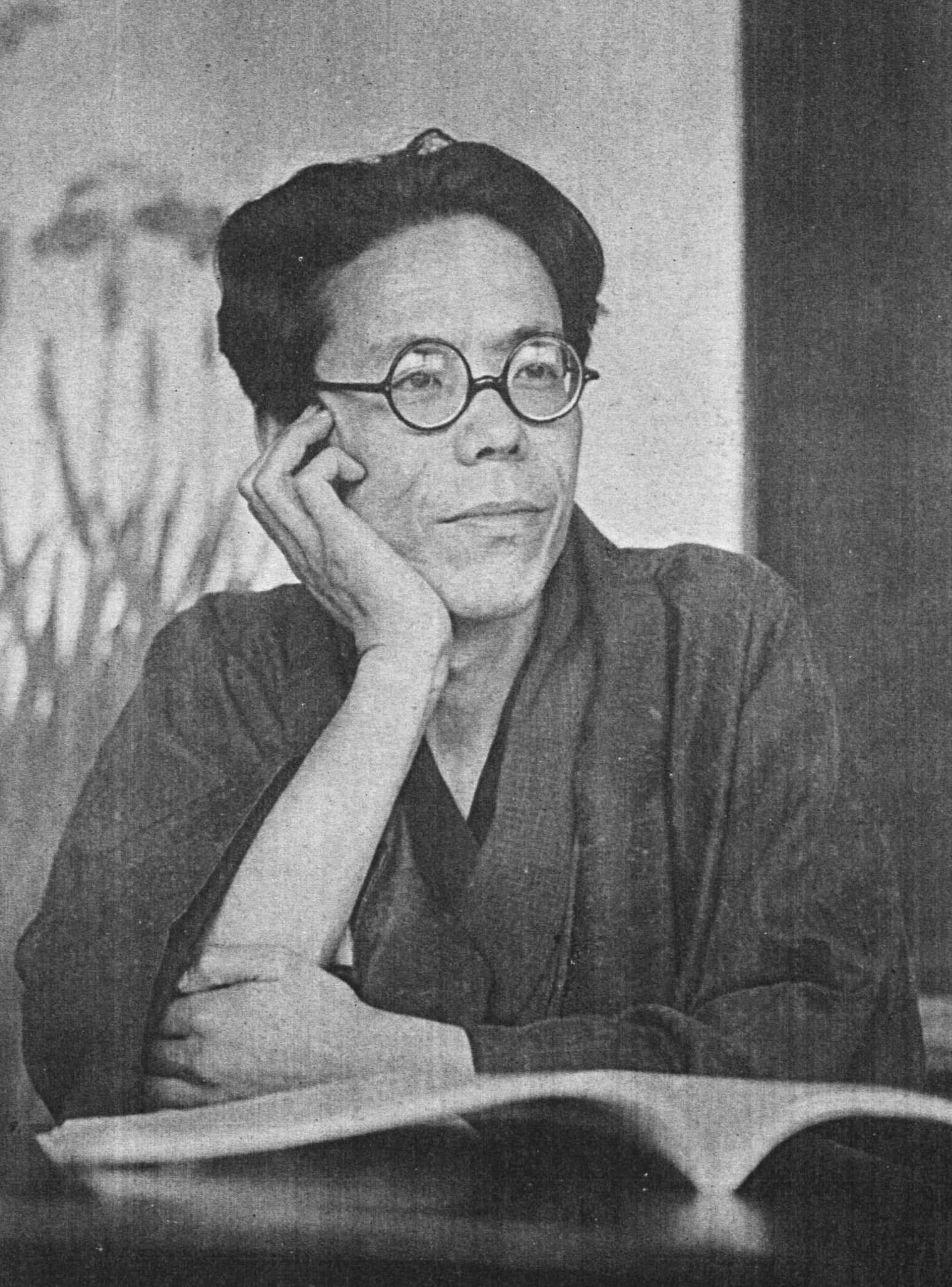 Photo of the screenwriter Fuji Yahiro